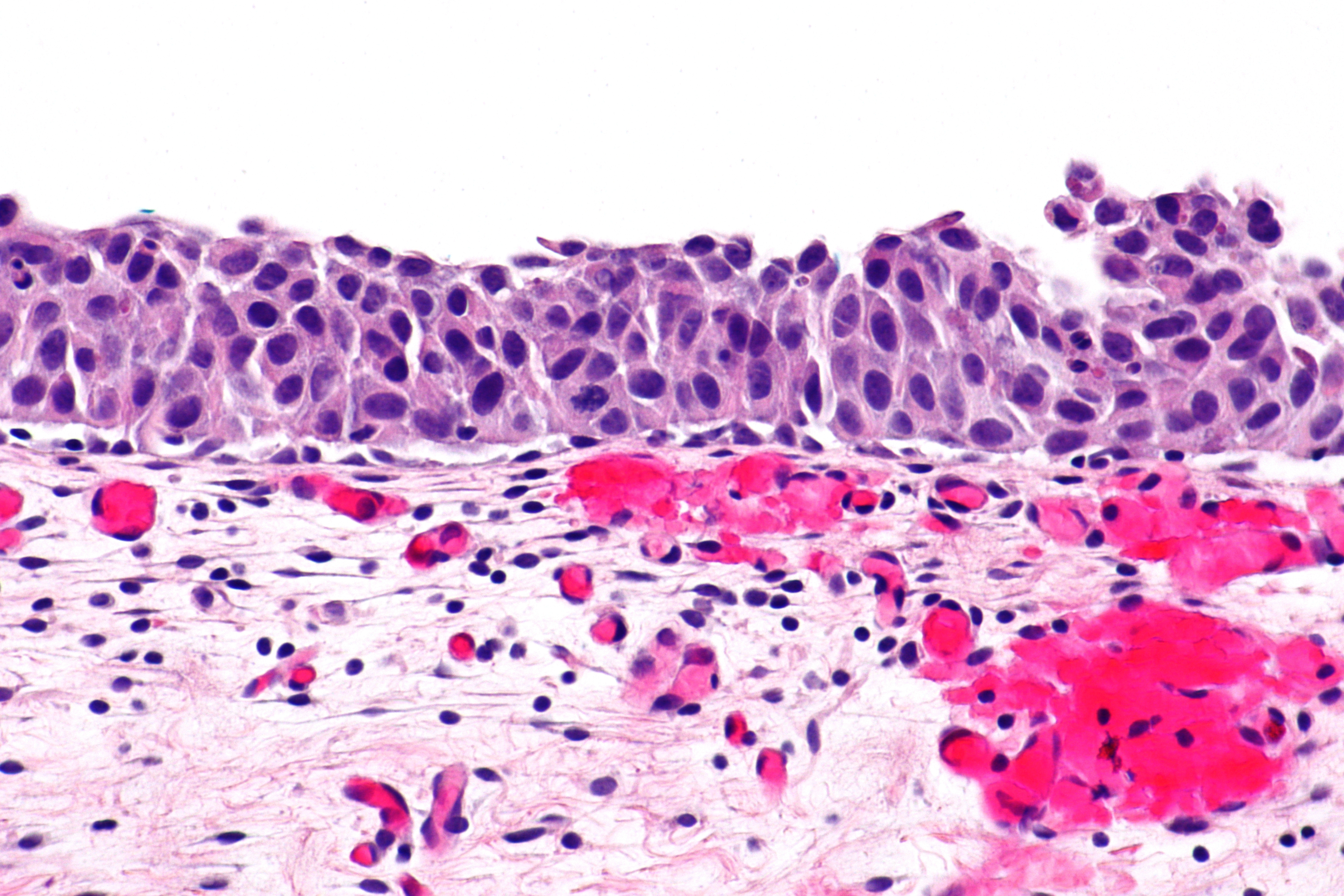 Micrograph of urothelial carcinoma in situ, abbreviated UCIS. H&E stain / Ki-67 IHC stain / p53 IHC stain / CK20 IHC stain. It is also known as high-grade dysplasia and high-grade urothelial dysplasia. Related images UCIS - intermed. mag. UCIS - high mag. UCIS - high mag. UCIS - very high mag. UCIS - CK20 - intermed. mag. UCIS - CK20 - high mag. UCIS - CK20 - very high mag. Benign urothelium - CK20 - high mag. UCIS - p53 - high mag. UCIS - p53 - very high mag. UCIS - Ki-67 - intermed. mag. UCIS - Ki-67 - high mag. UCIS - Ki-67 - very high mag.